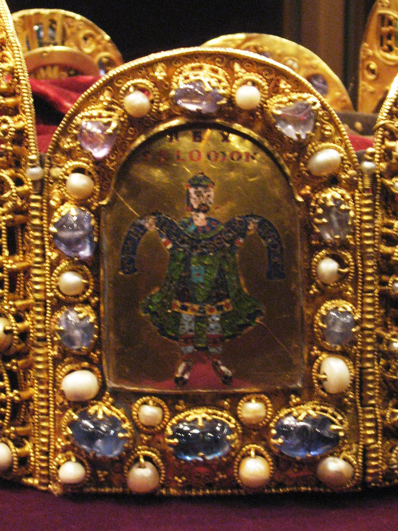 King Solomon. The Imperial Crown Western Germany 2nd half of the 10th century The cross is an addition from the early 11th century; the arch dates from the reign of Emperor Conrad II (ruled 1024-1039); the red velvet cap is from the 18th century. Gold, cloisonné enamel, precious stones, pearls Brow plate: H 14.9 cm, W 11.2 cm; cross: H 9.9 cm SK Inv. No. XIII 1